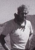 Jon Kalb & Afar Chief, Near Bati, November 1973